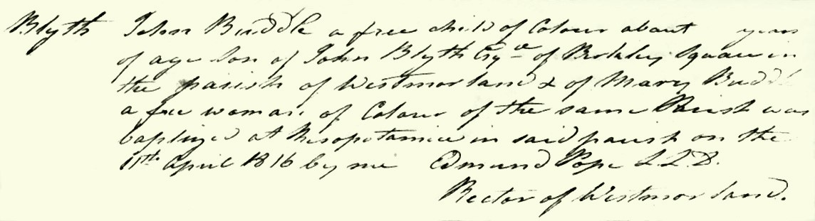 John Binddle Blyth Jamaica, Church of England Parish Register Transcripts, 1664-1880.